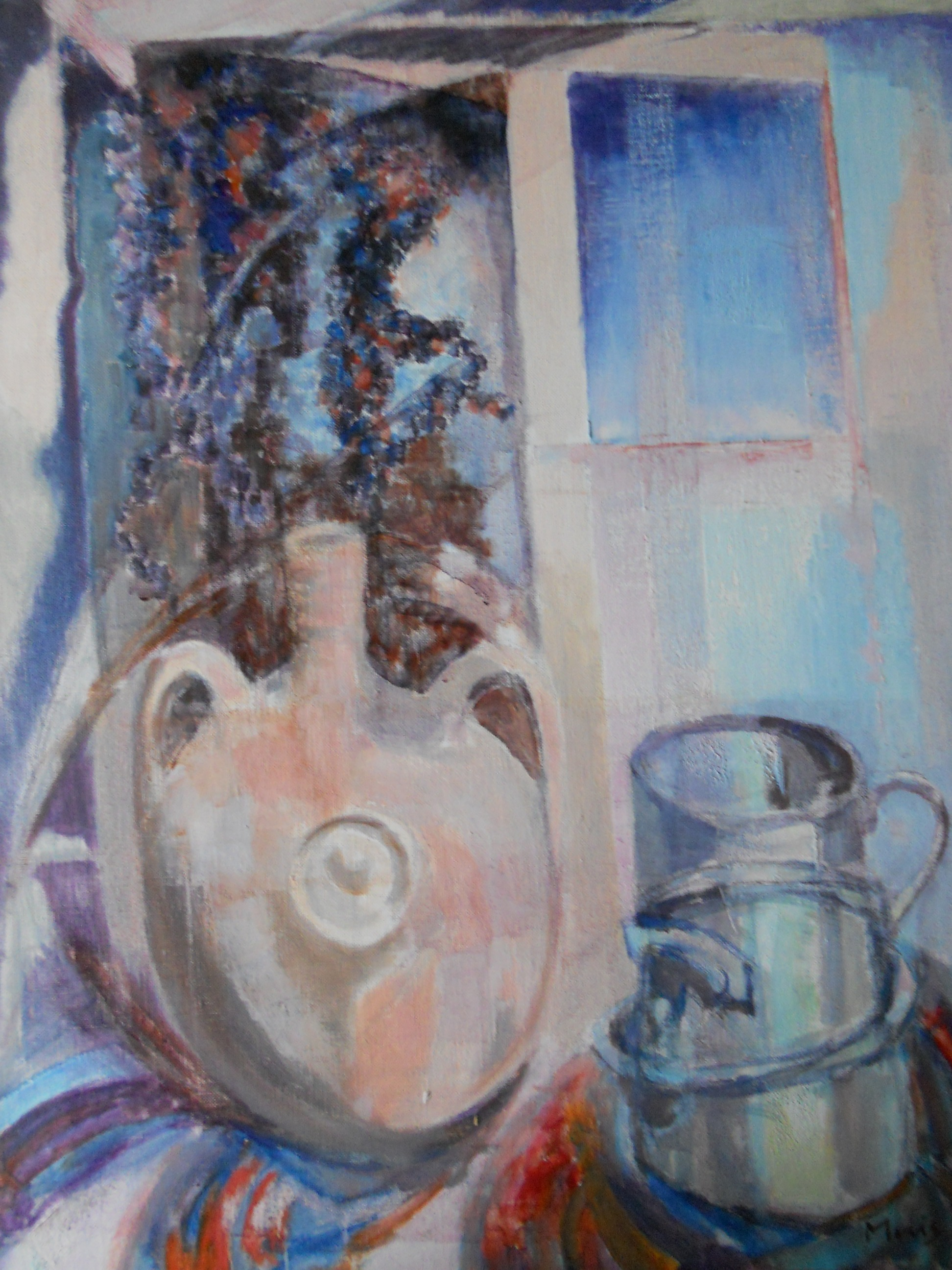 Albert Muis, oil on canvas